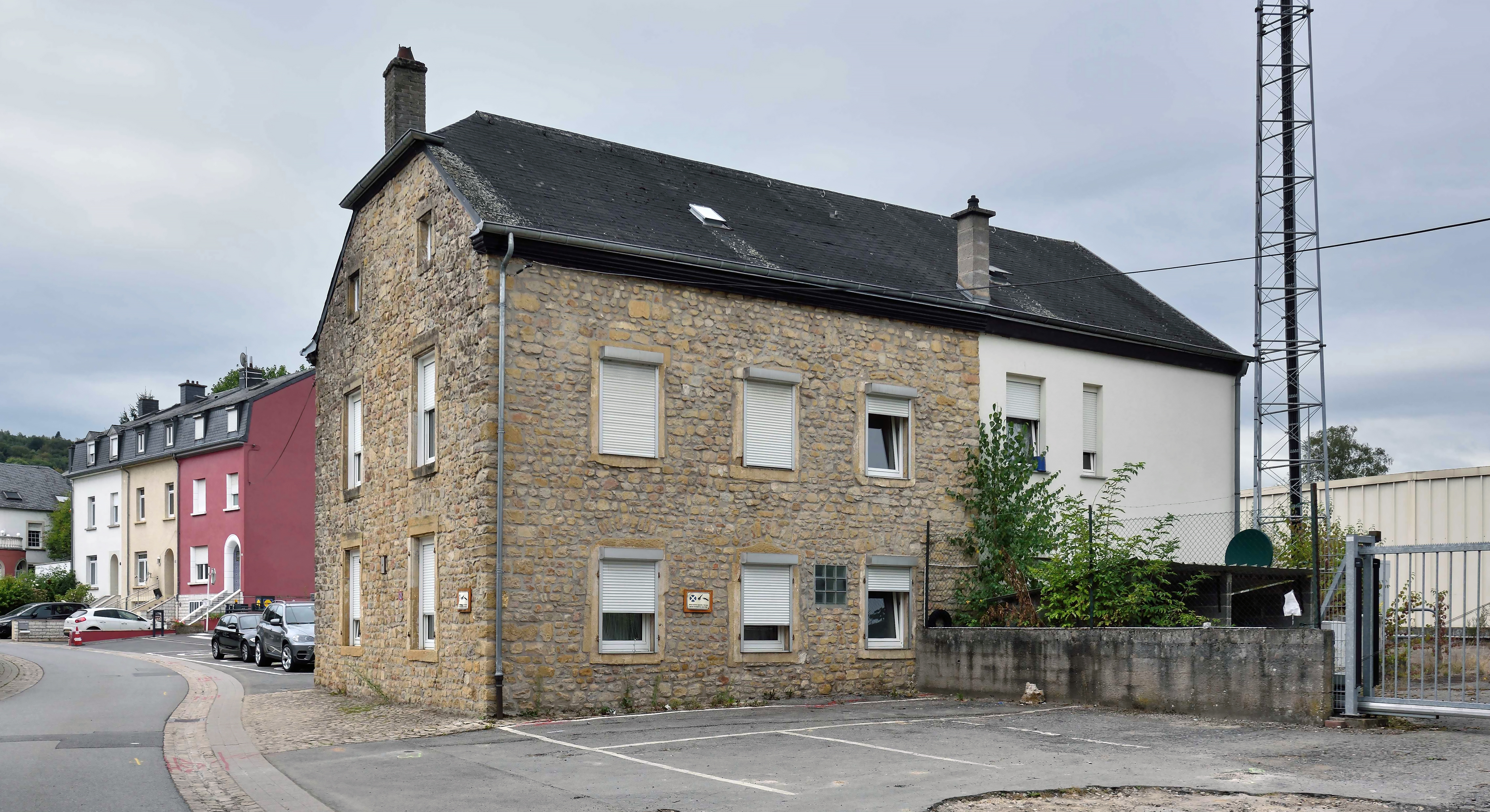 Postero-lateral view of the so-called House of the whights, at 11, rue de Bastogne in Beggen, Luxembourg City.